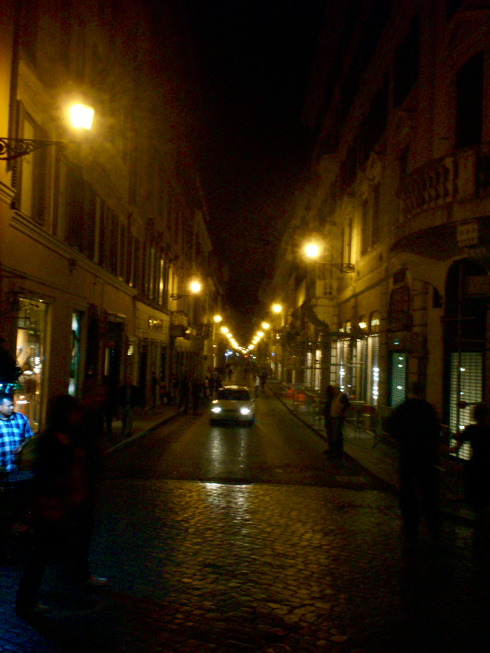 A picture taken from the top of the Scala di Spagna from the Via Condotti.